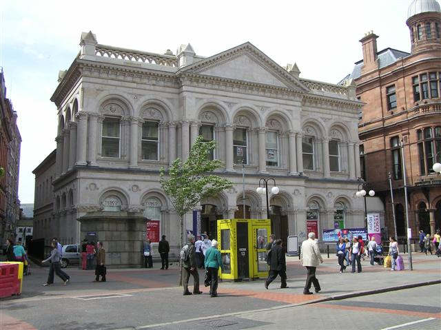 Tesco, Belfast It is located on Royal Avenue